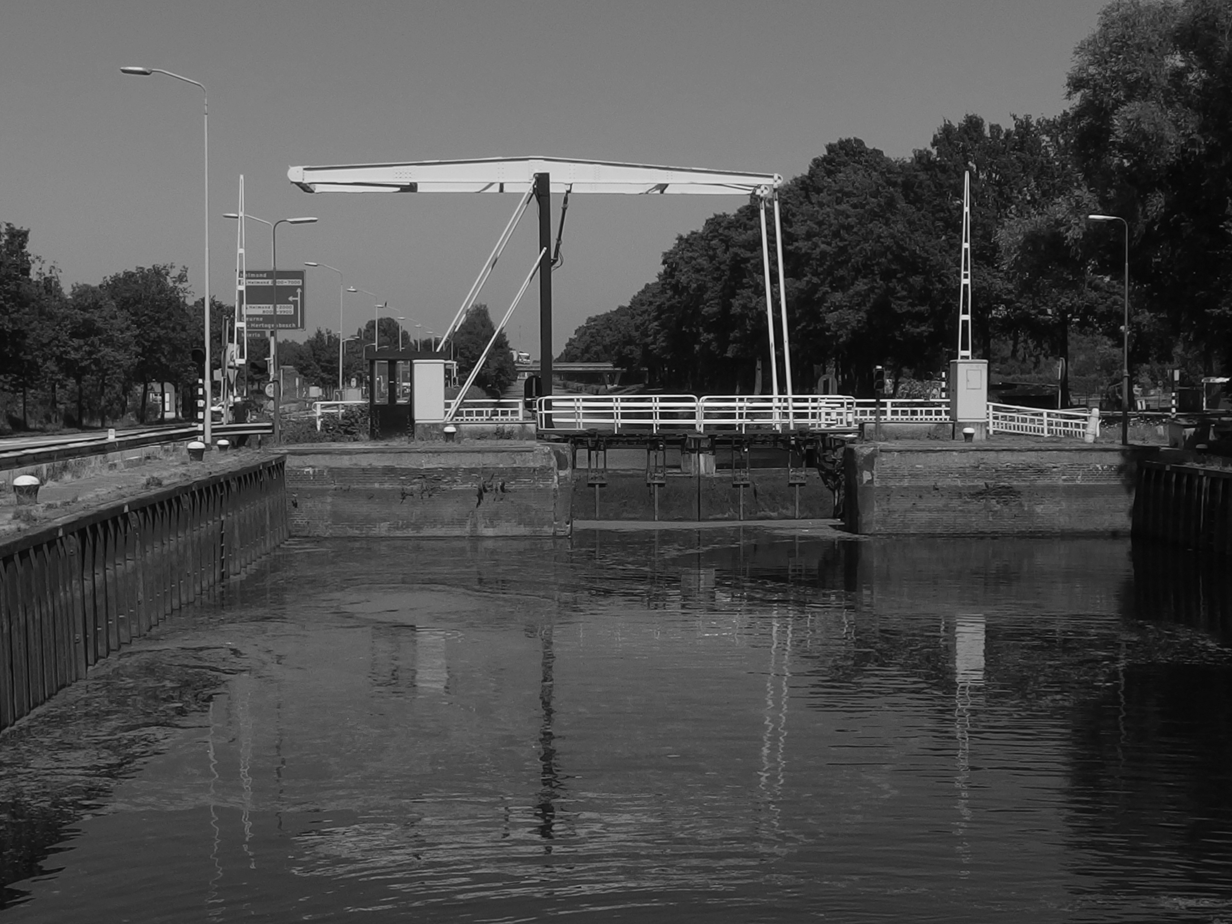 2014-07-24: Sluis (canal lock) 12 in Zuid-Willemsvaart near Someren.